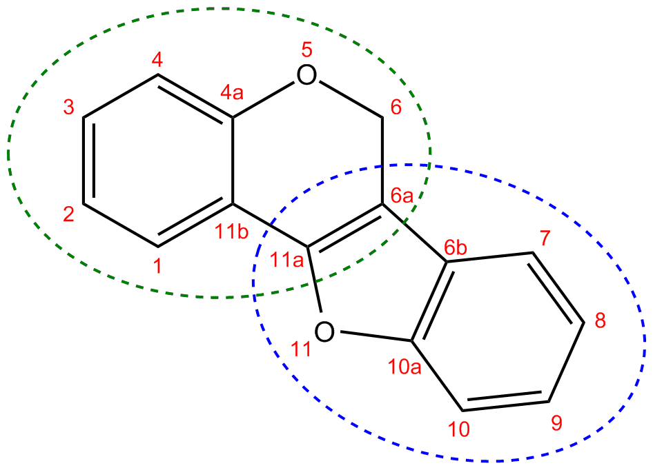 author=Kupirijo